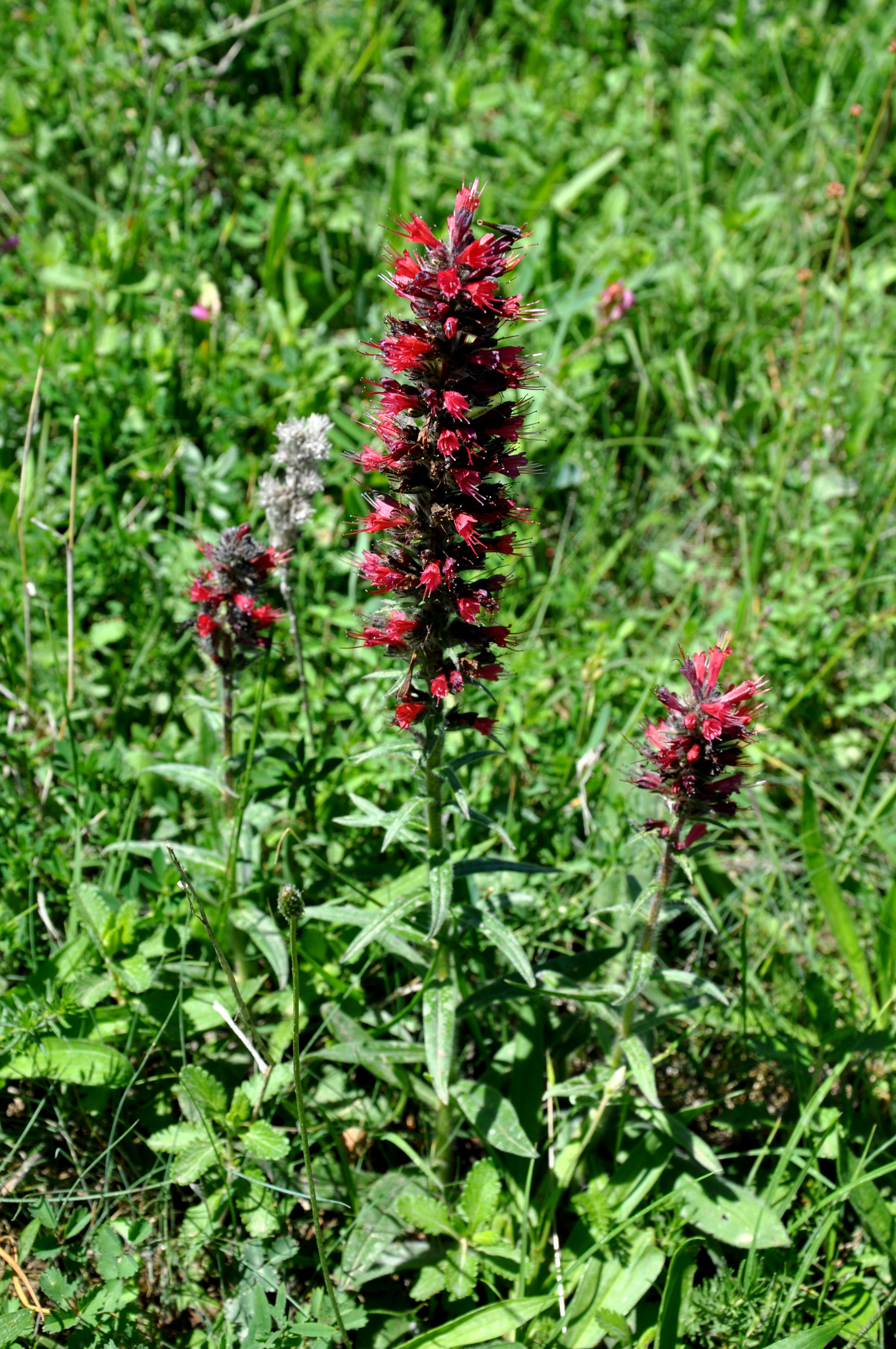 Saguramo